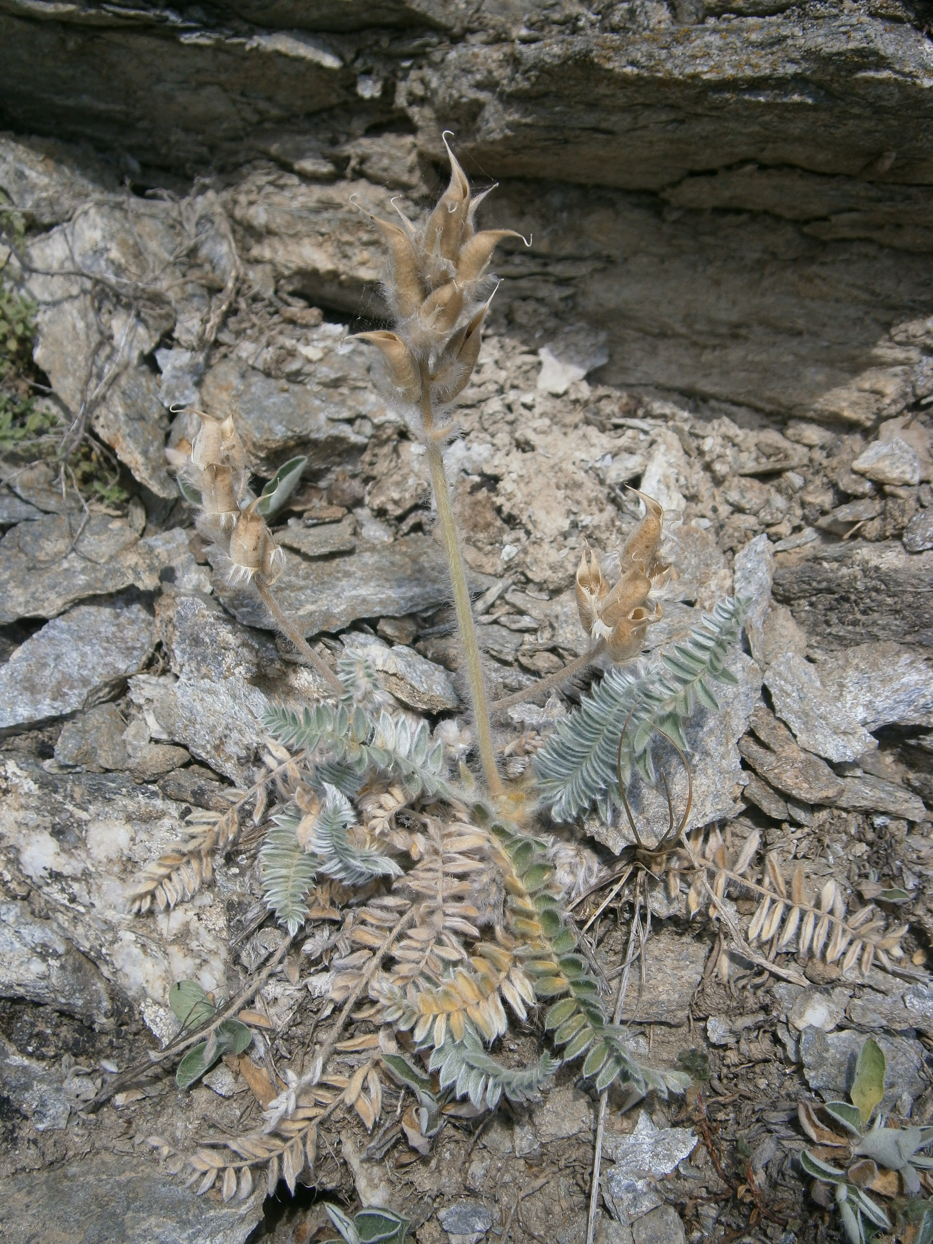 Oxytropis fetida fruits - Queyras